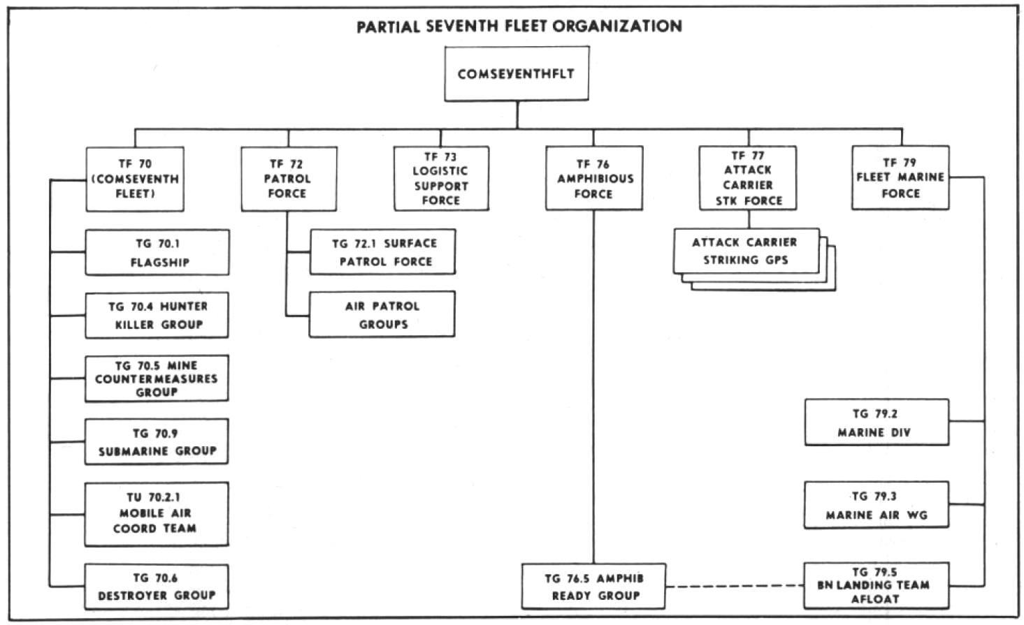 Table showing the organisation of the U.S. Navy Seventh Fleet in 1963.